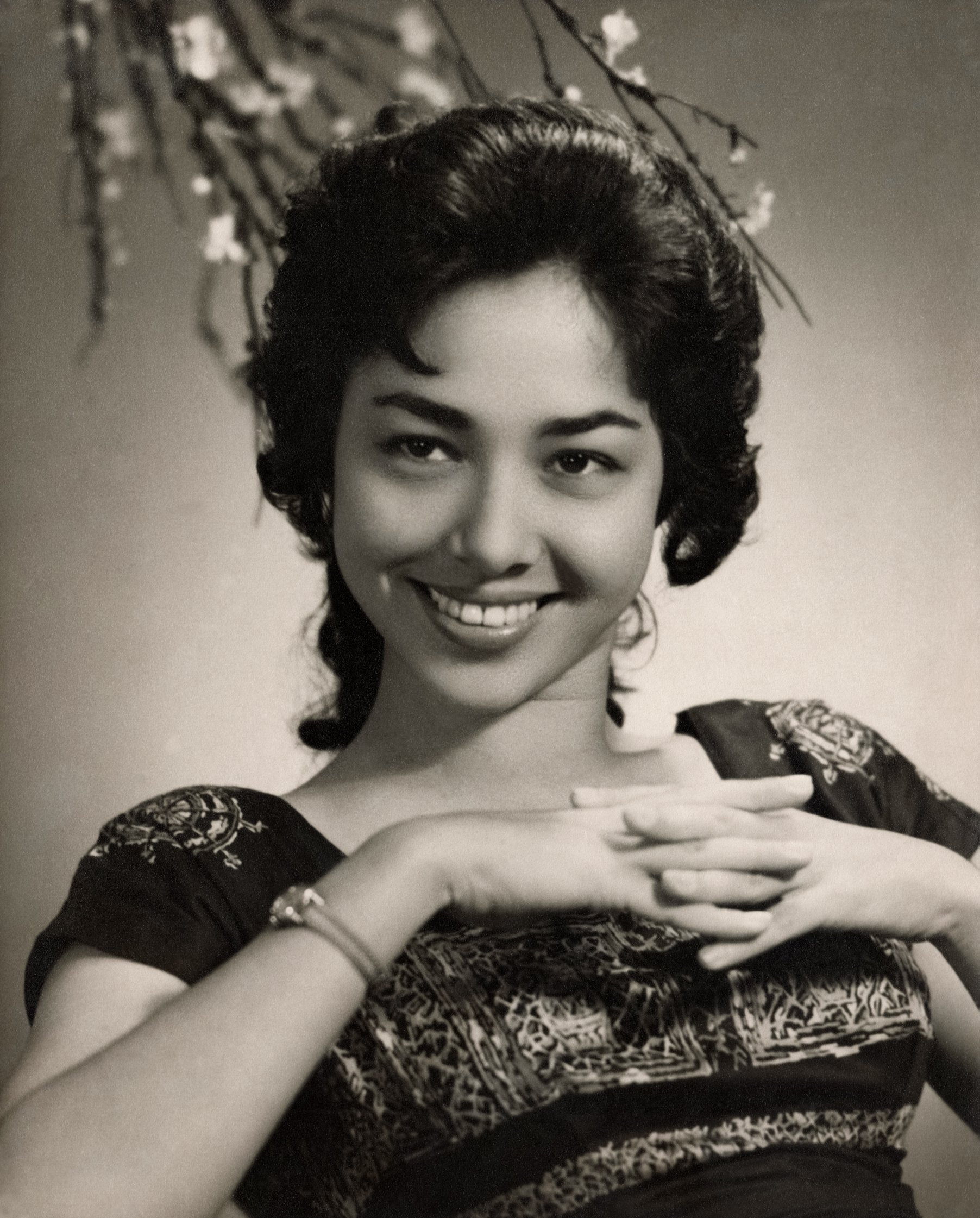 Mieke Wijaya, c. 1960, from Tati Photo Studio. Restored from File:Mieke Wijaya, c. 1960, from Tati Photo Studio - Before restoration.jpg by Crisco 1492.